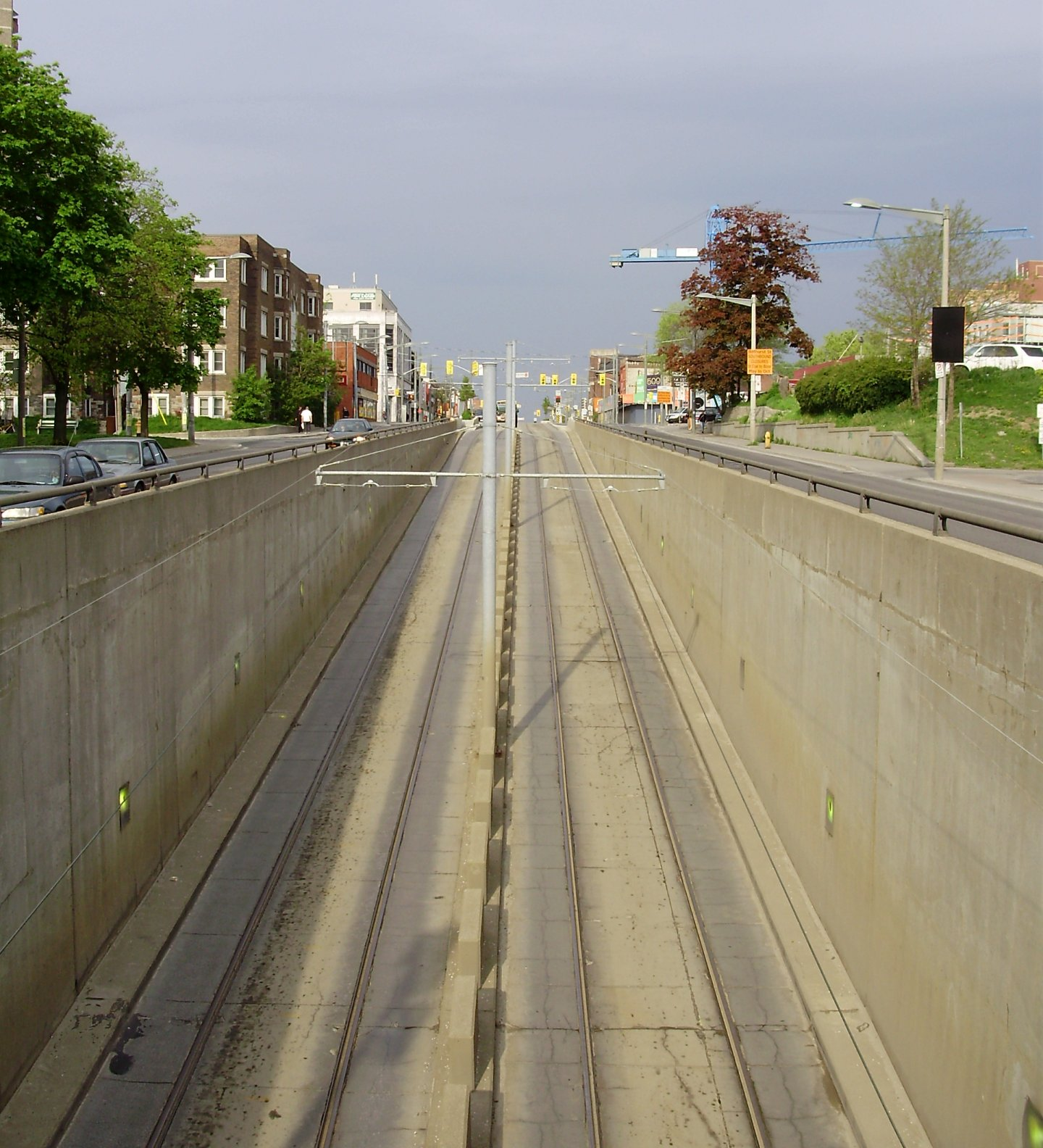 Just west of St. Clair West station on St. Clair Avenue in Toronto, Canada, the middle lanes plunge underground to provide bus and streetcar access to the station.